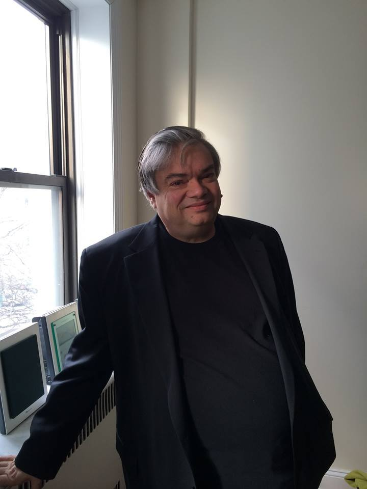 Terry Teachout, New York City, March 4, 2014. Taken by me shortly before the opening-night performance of "Satchmo at the Waldorf," Teachout's first play.